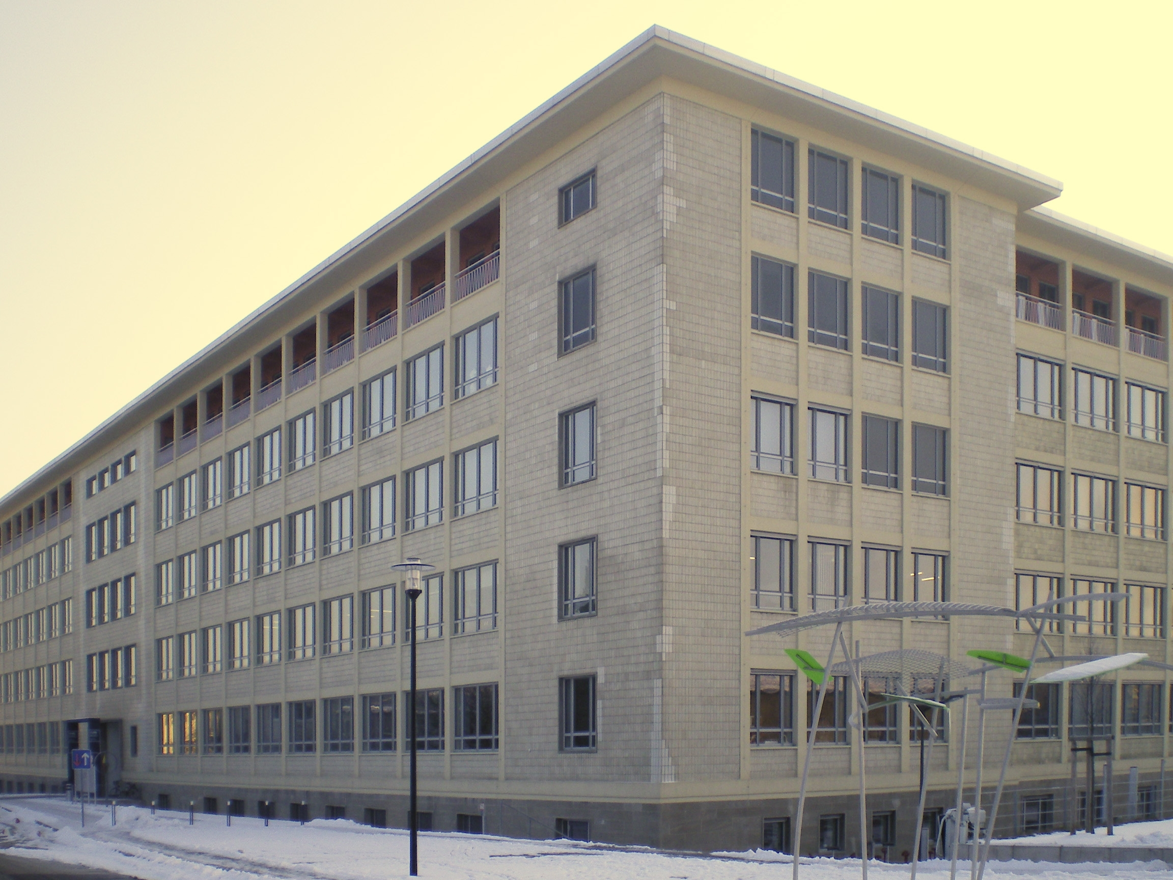 College in Merseburg near Halle/Saxony-Anhalt